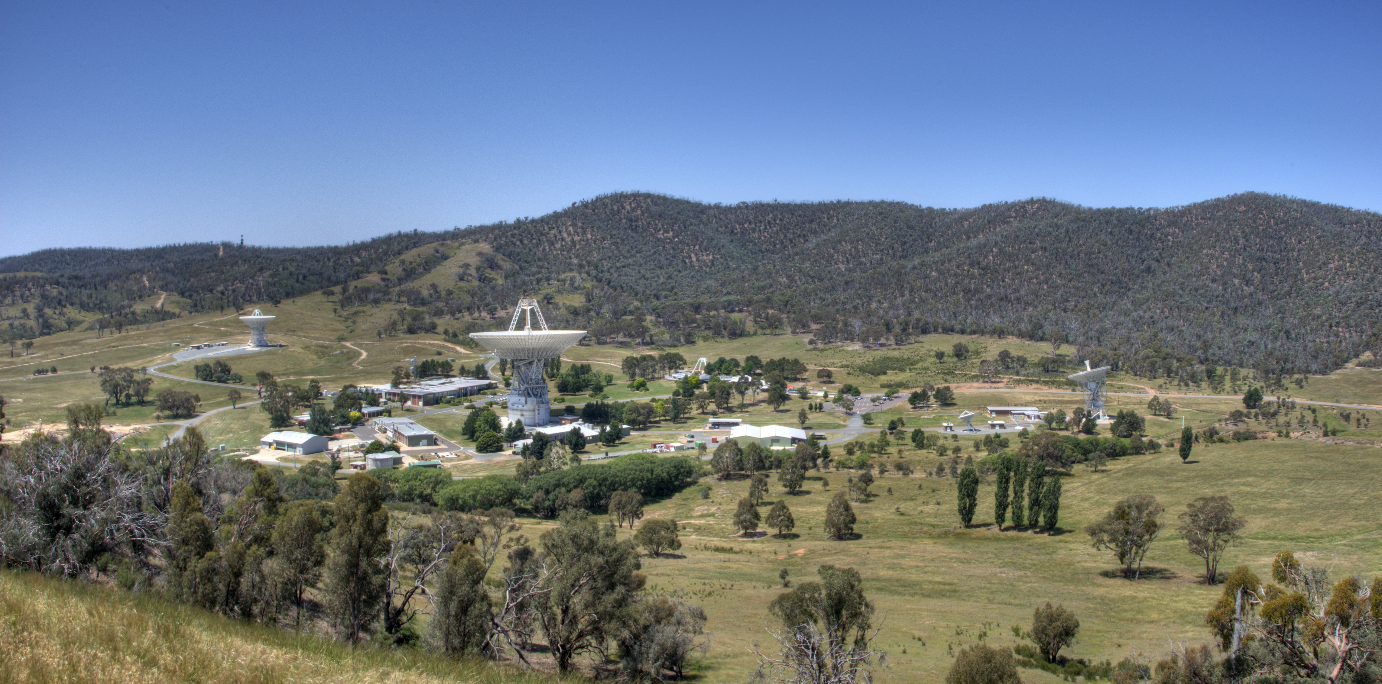 A view of the Canberra Deep Space Communication Center from the hill to west.